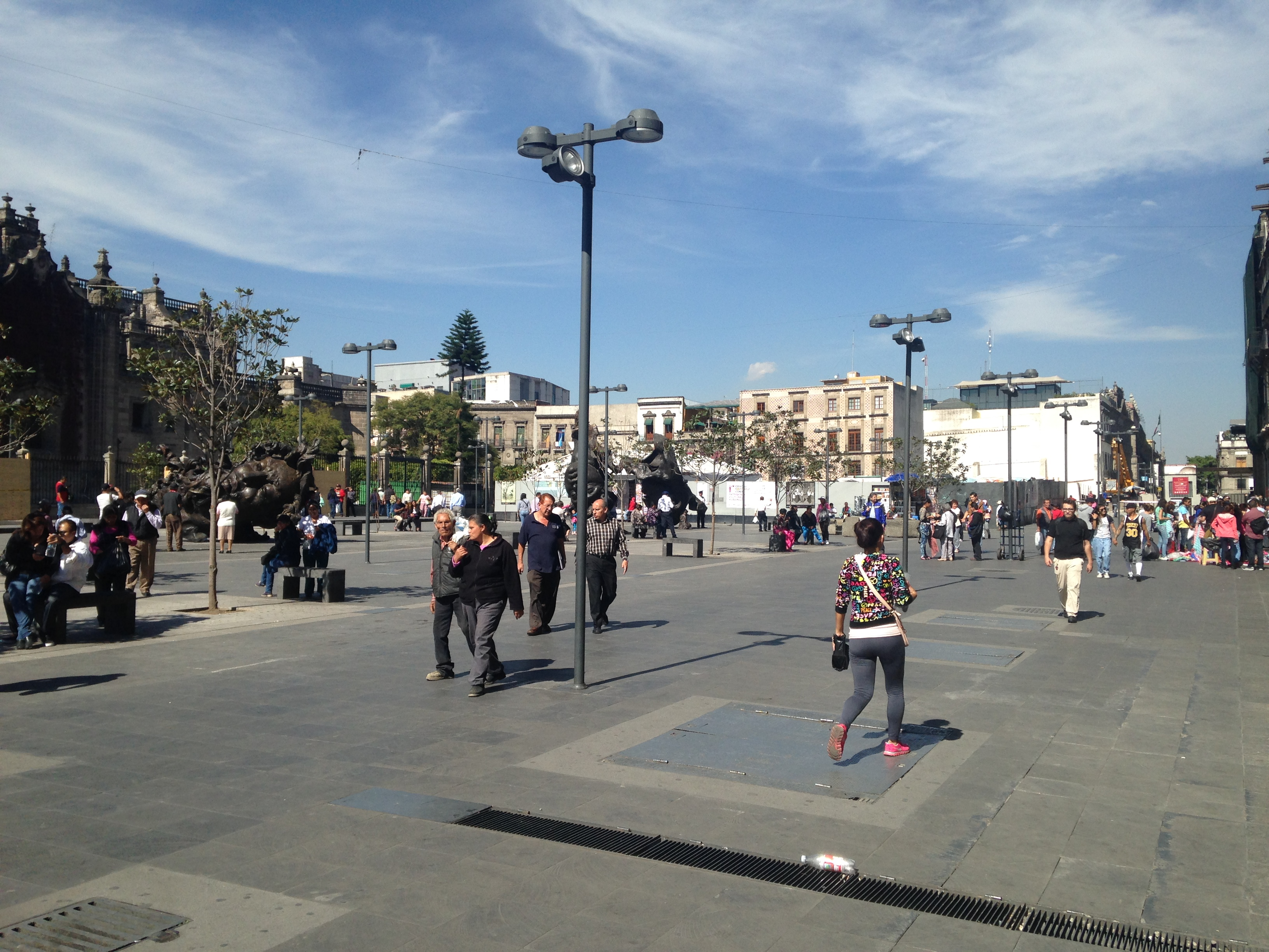 Manuel Gamio Square is a public space in the Historic center of Mexico City. It is located between the archaeological zone of the Templo Mayor and the shrine of the Metropolitan Cathedral.